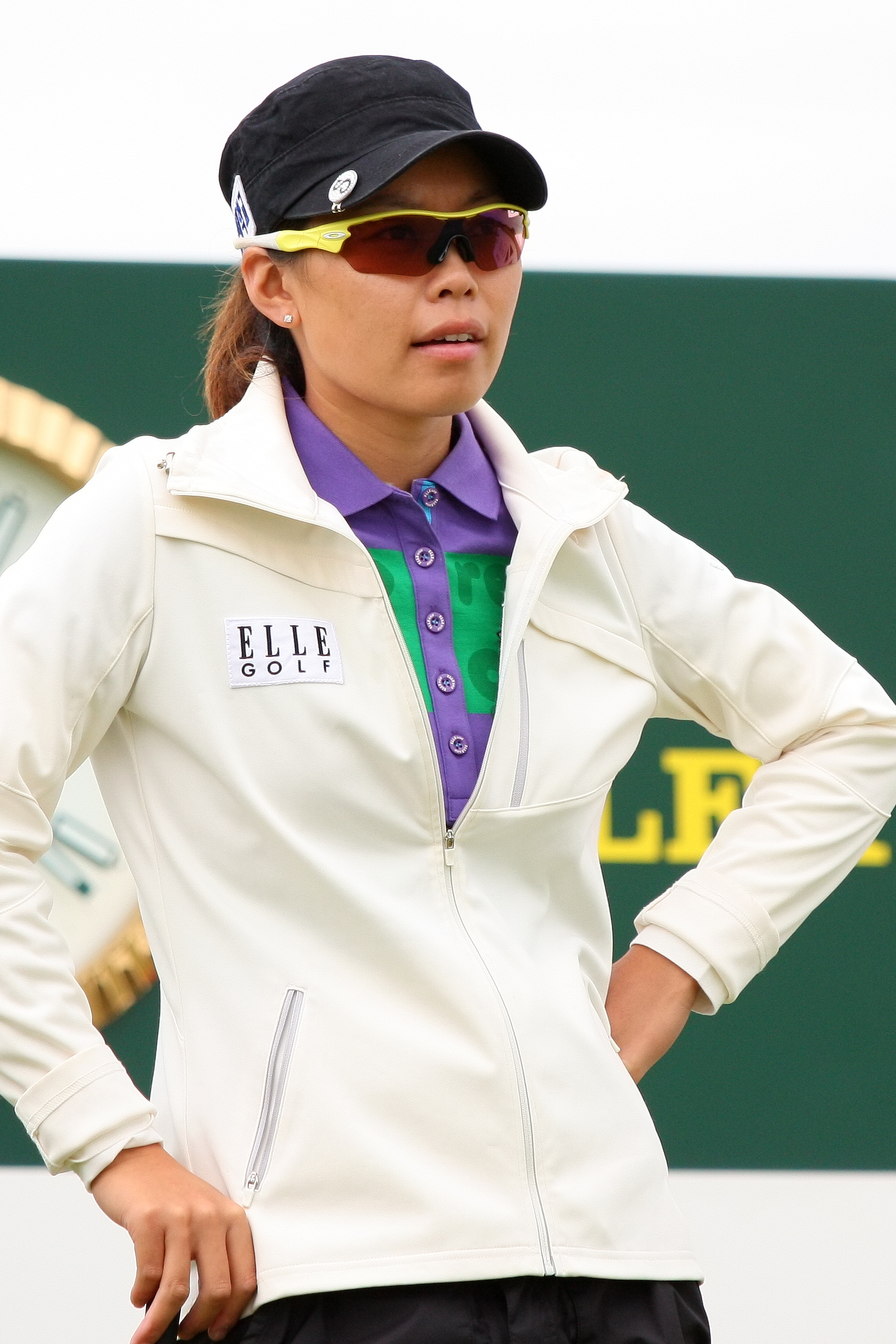 ST ANDREWS, SCOTLAND – JULY 31: Yoo Sun-Young of South Korea on the 15th tee during final practice round of 2013 Ricoh Women's British Open held at St Andrews Old Course on July 31, 2013 in St Andrews, Scotland. (Photo by Wojciech Migda)